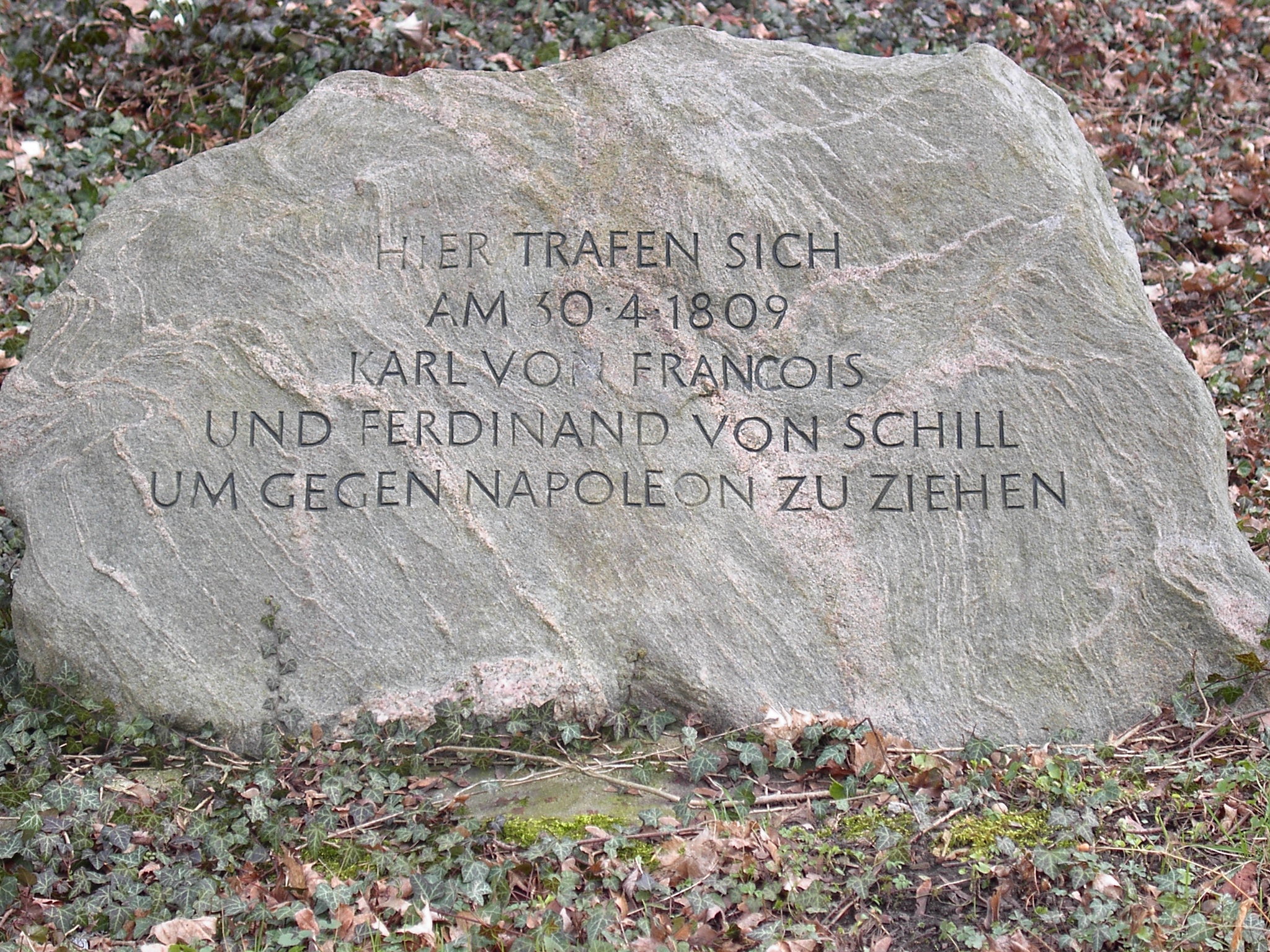 Memorial stone in Niemegk for Karl von François and Ferdinand von Schill. Inscription (translated from German): Karl von Francaois and Ferdinand von Schill met here at 04/30/1809 to campaign against Napoleon